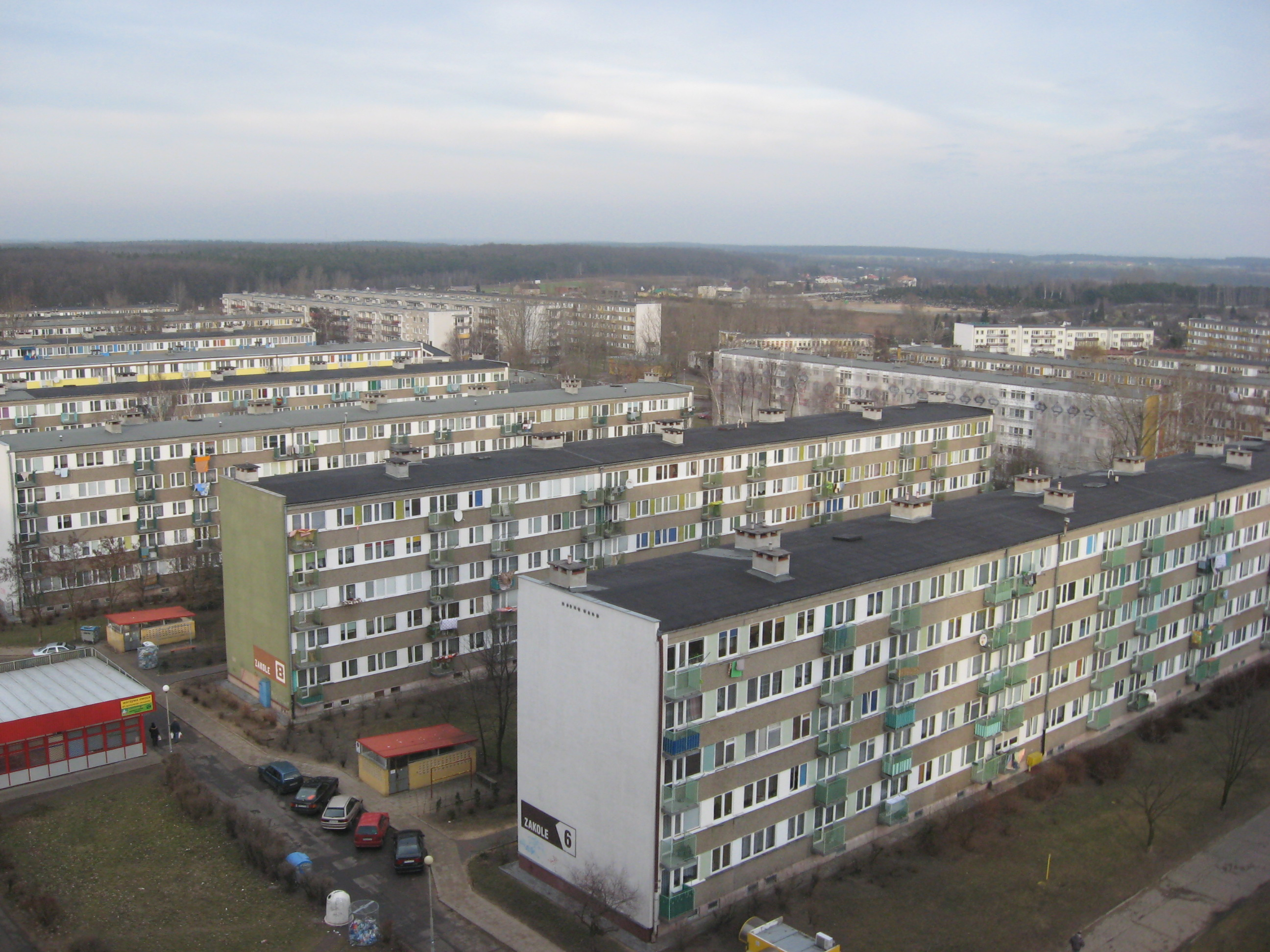 Housing estate no. V